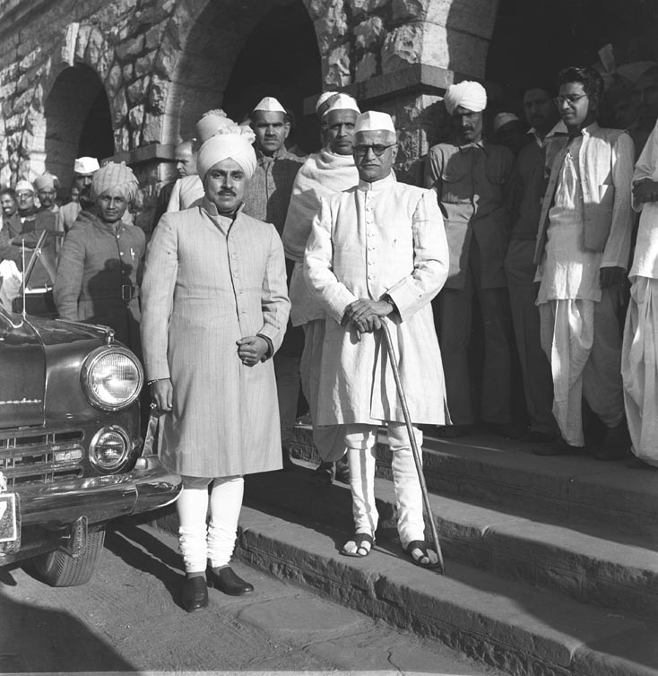 Arrival of the Hon ble Mr. N.V. Gadgil Minister for Word Mine and Power at Bharatpur Railway Station for the inauguration of the Matsya States Union (March 1948) Photo Number:-2725